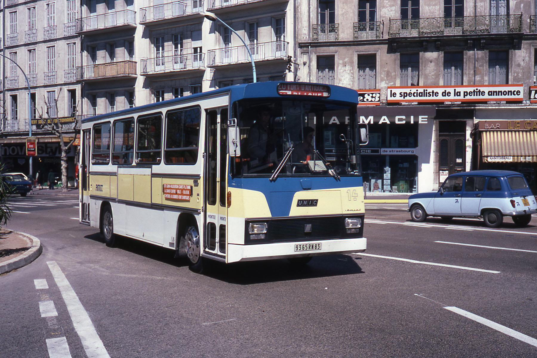 UNIC 316 bus (reg. 9365RN83, #14) in Toulon, France. Built 1980.